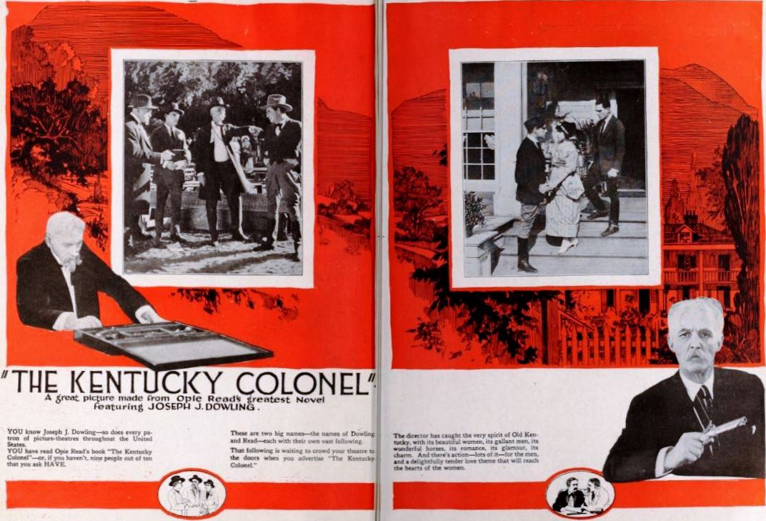 Advertisement for the American drama film The Kentucky Colonel (1920) with Joseph J. Dowling and Frederick Vroom, from the insert after page 10 of the October 2, 1920 Exhibitors Herald.